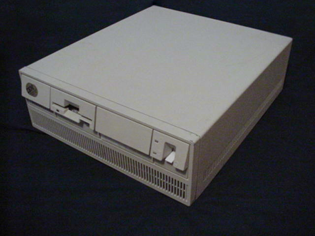 Front view of the IBM PS/2 Model 70, with one floppy and one hard drive. The front-right bay is empty.